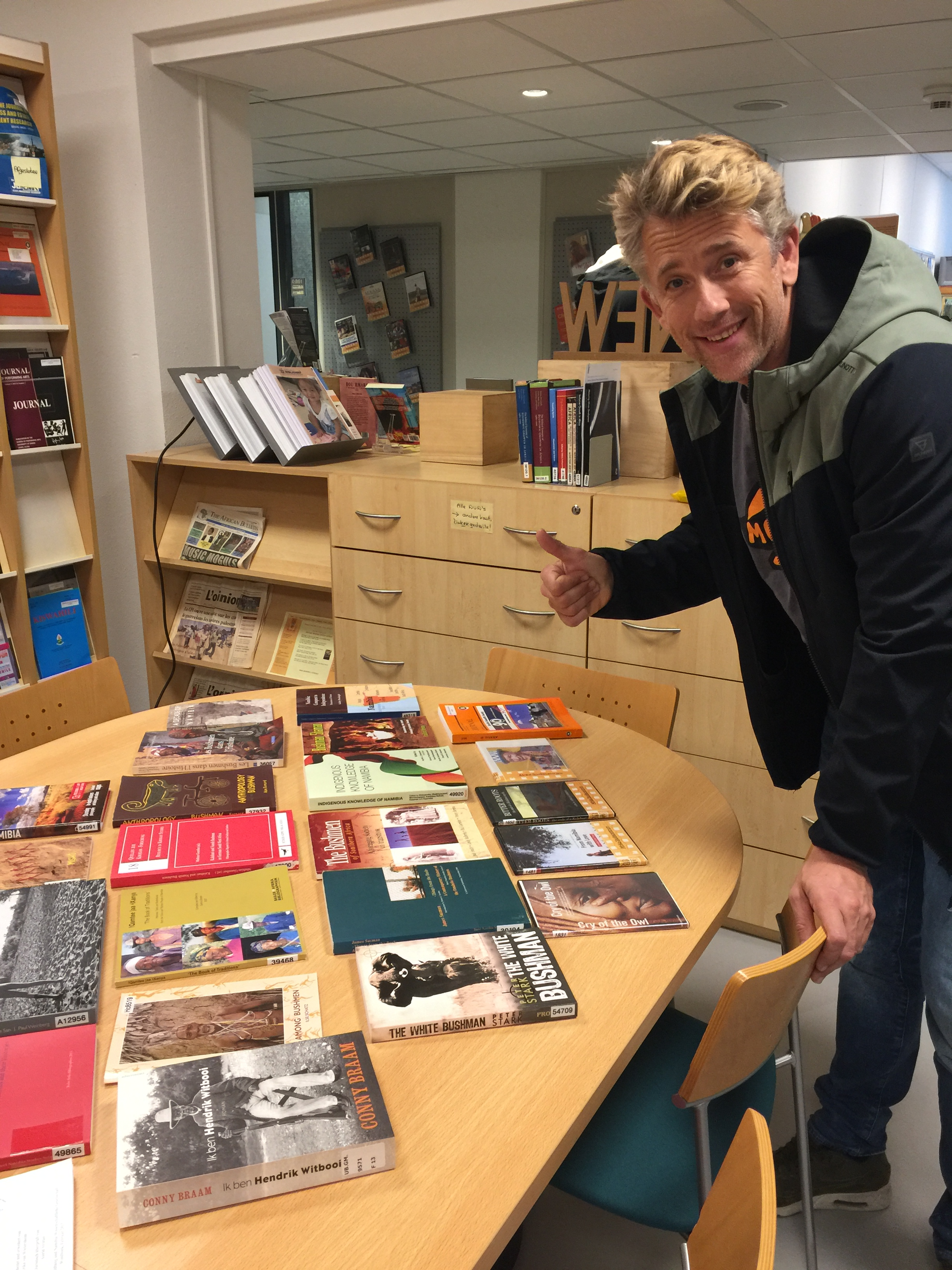 Waldemar Torenstra at the Library of the African Studies Centre, Leiden